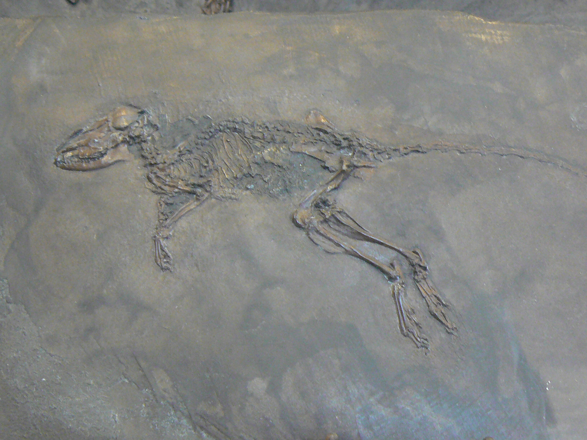 Macrocranion tupaiodon from the Messel pit fossil site in Germany. Note that the file name is inappropriate, since Macrocranion is not a member of Miacidae